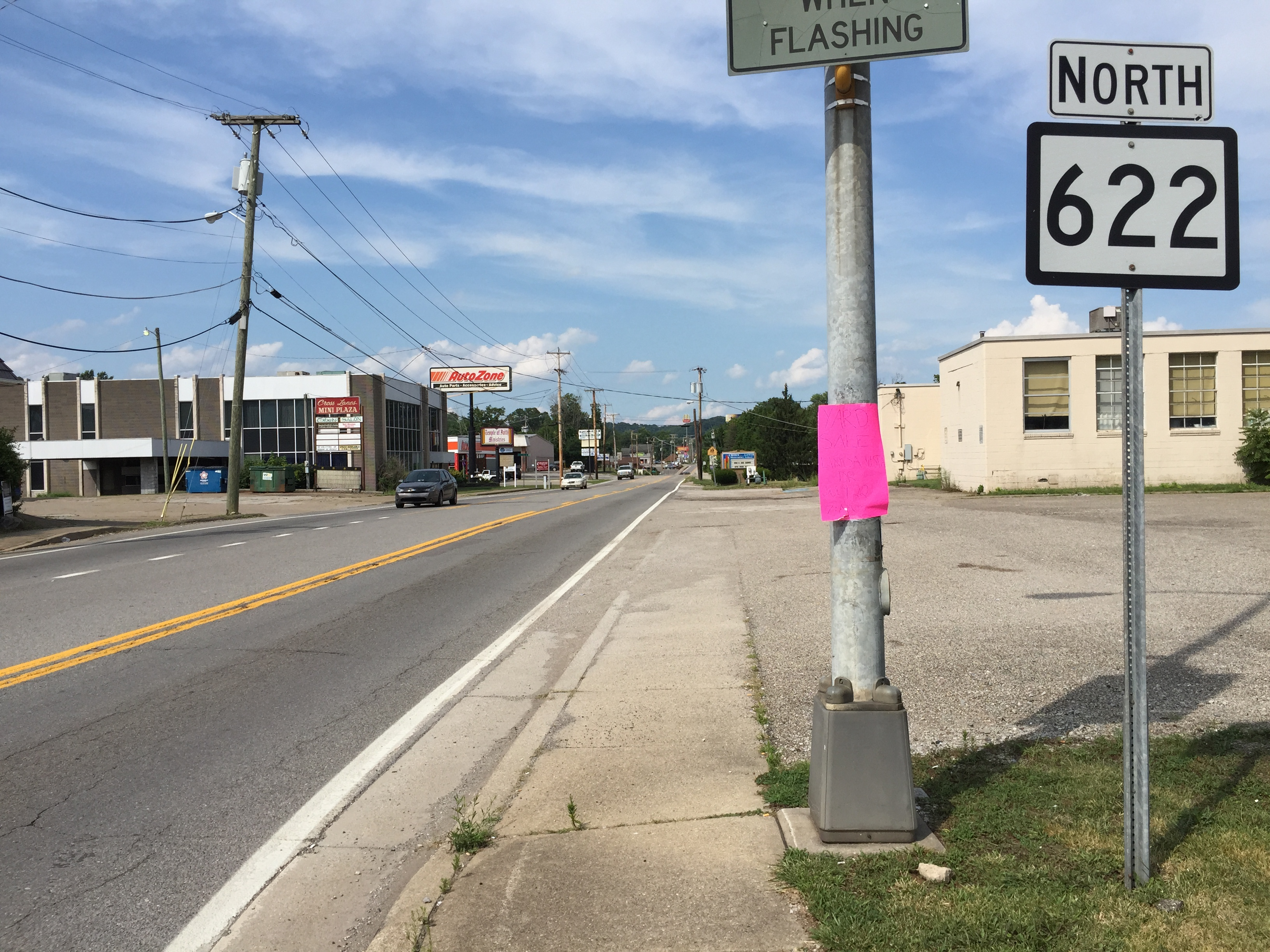 View north along West Virginia State Route 622 (Big Tyler Road) at West Virginia State Route 62 (Washington Street/Cross Lanes Drive) in Cross Lanes, Kanawha County, West Virginia